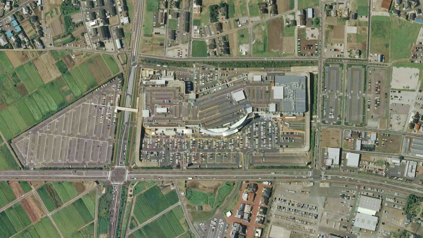 Aeon Mall Takasaki.